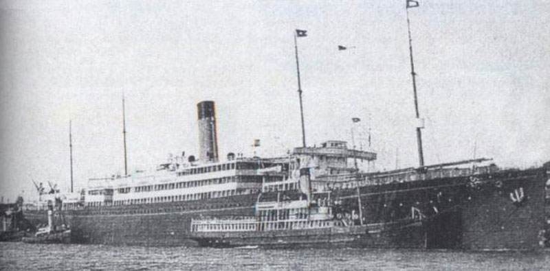 White Star Liner SS Arabic, sunk by German submarine U-24 on 19 August 1915.